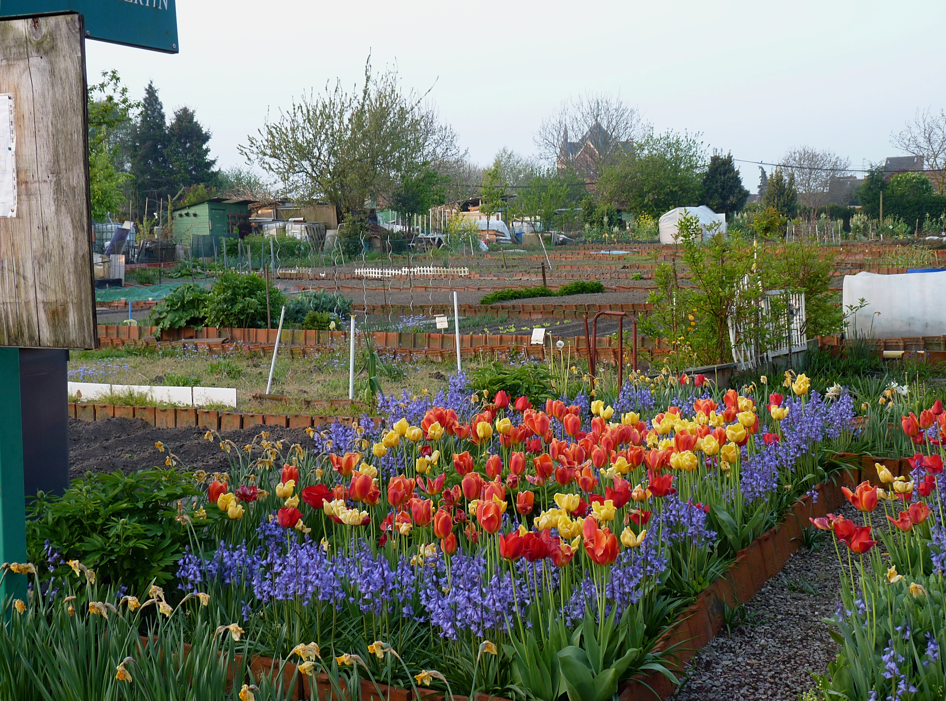 Allotments in Tourcoing (Nord), France. In the background, the church Notre-Dame de la Marlière.